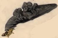 Stainton’s Natural History of the Tineina (1855–1873): Coleophora violacea larval case